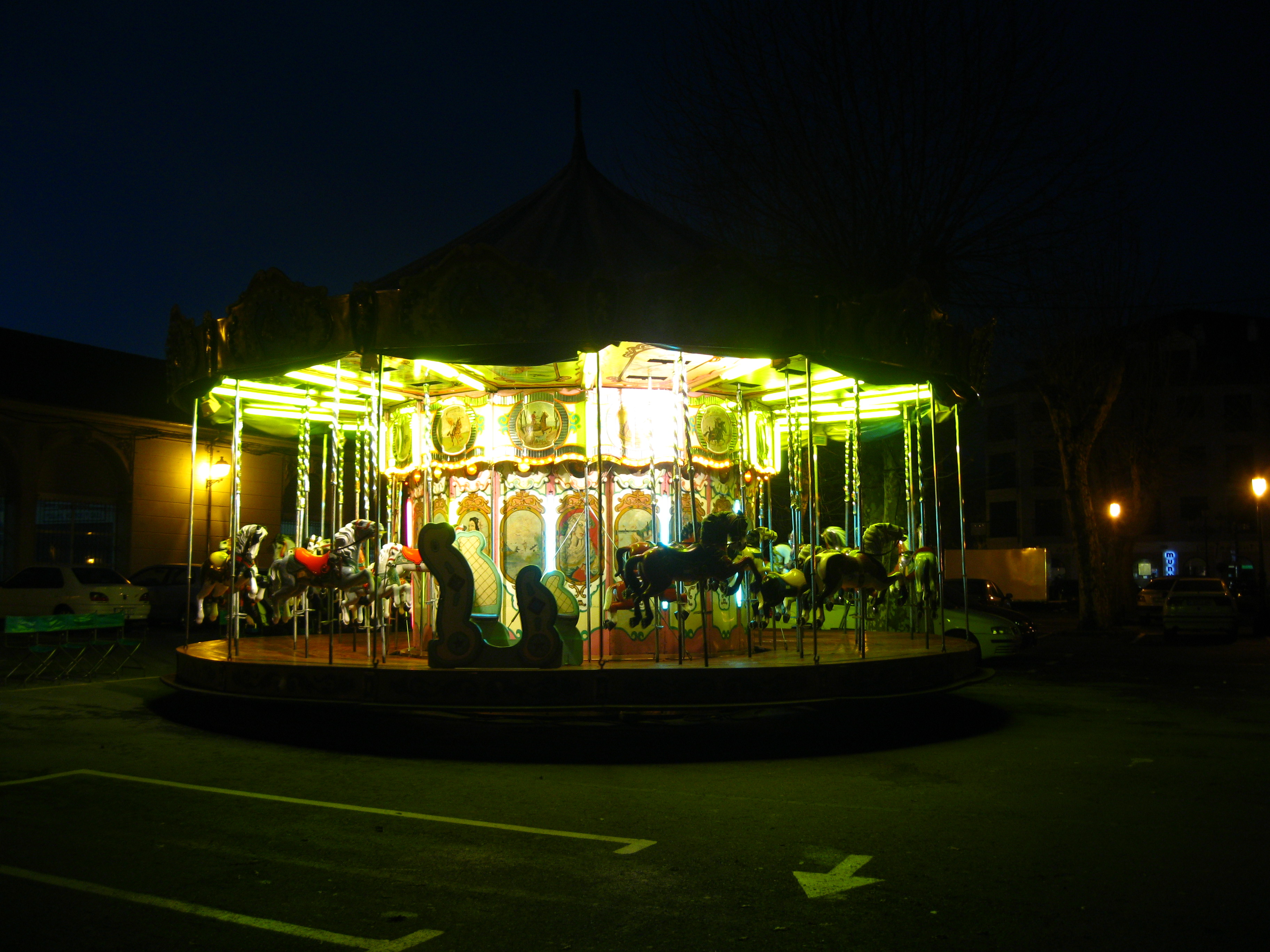 Carousel in Padrón, Galicia, Spain.